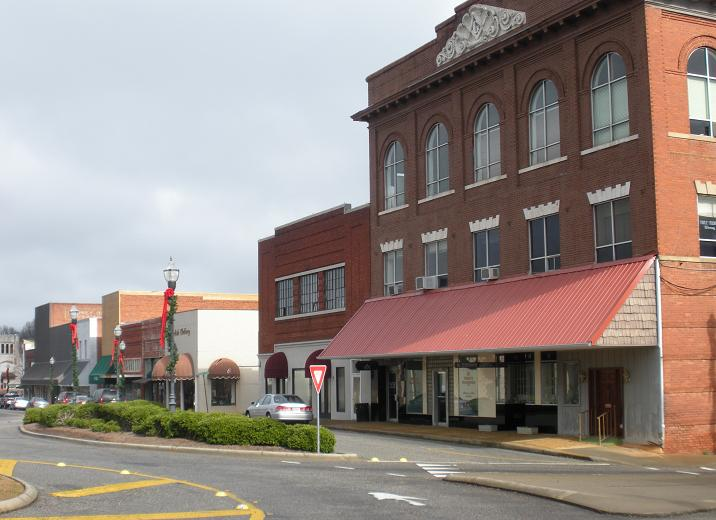 This is a picture of the Court Square area of Alexander City, Alabama.